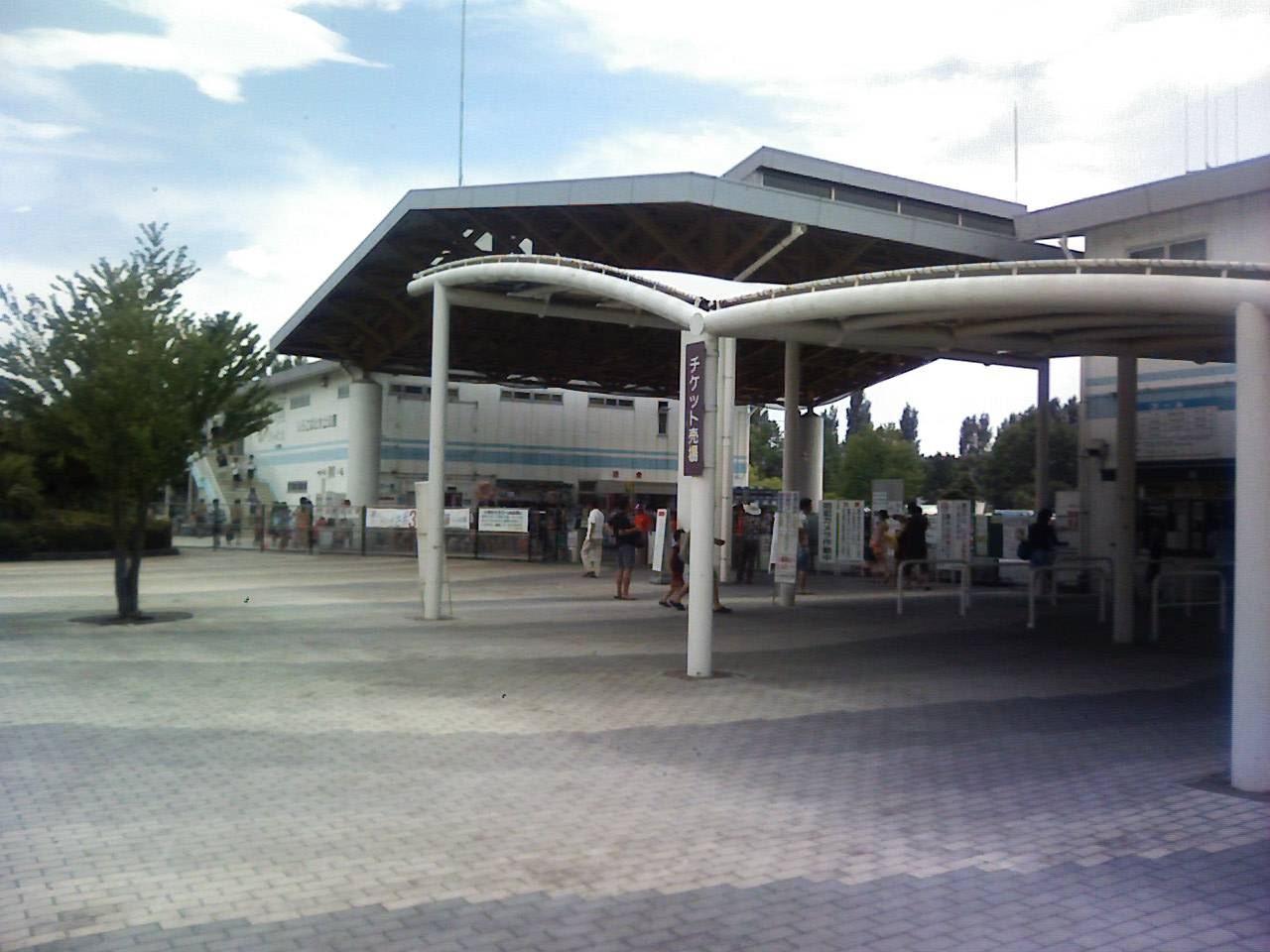 Shirakobato_Aquatic_Park, Saitama, Japan